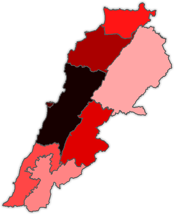 The darkest colours represent the governorates with the most cases, and the lightest colours, the governorates with much fewer cases.